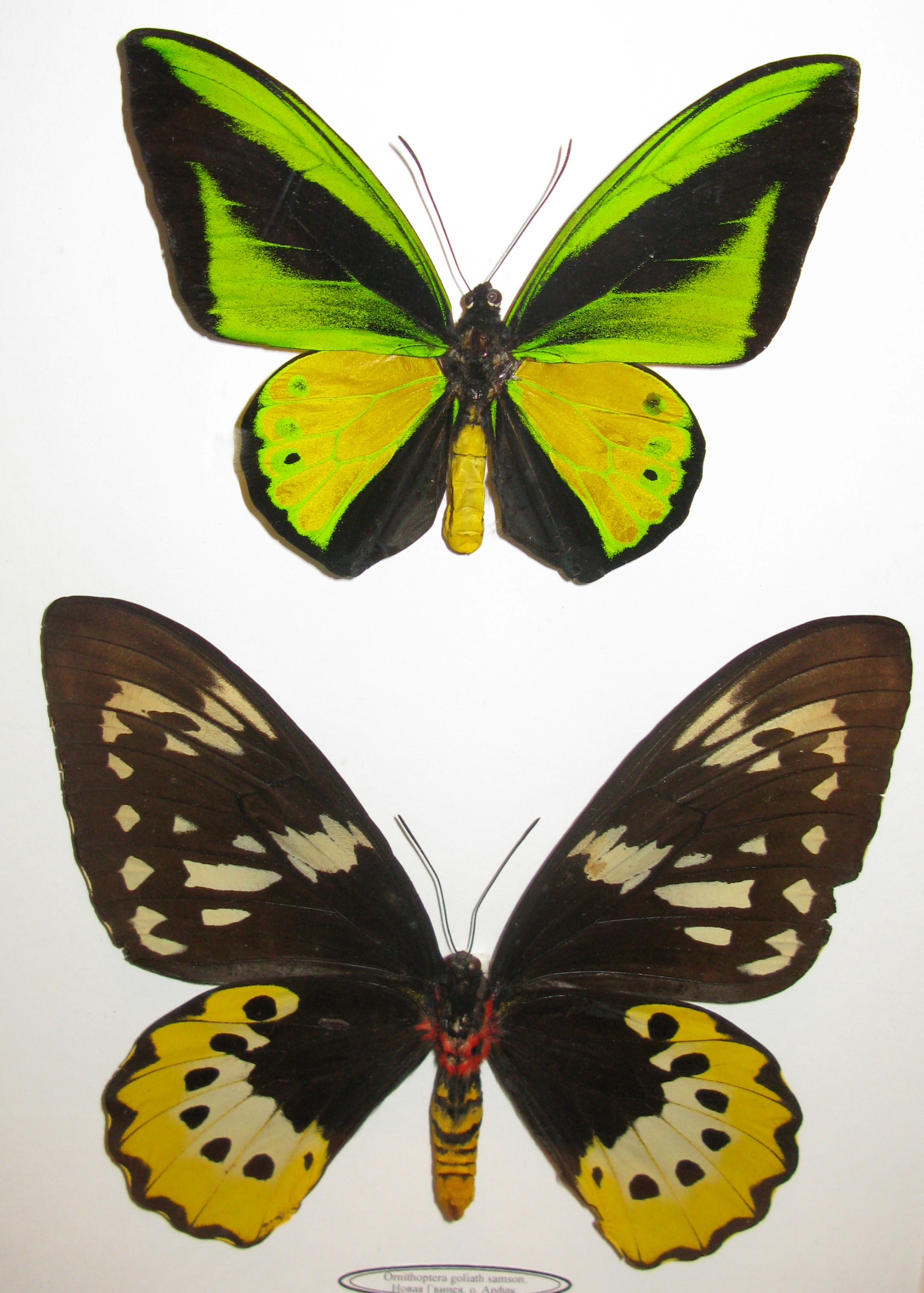 Ornithoptera goliath samsom pair